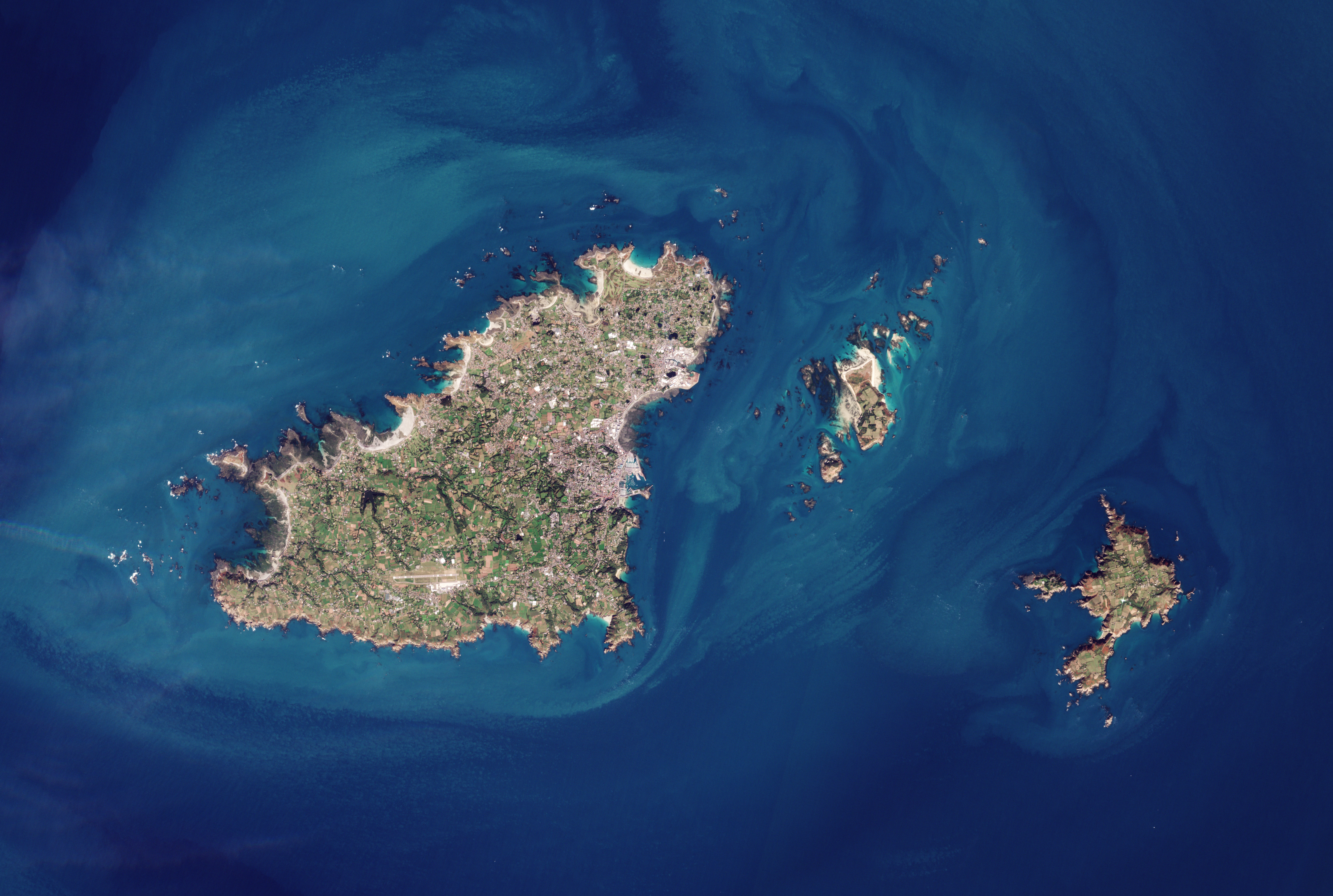 Date: 2018-06-30 Sensor: MSI on Sentinel-2B Resolution: 10m RGB Composites: True color, Band 4-3-2